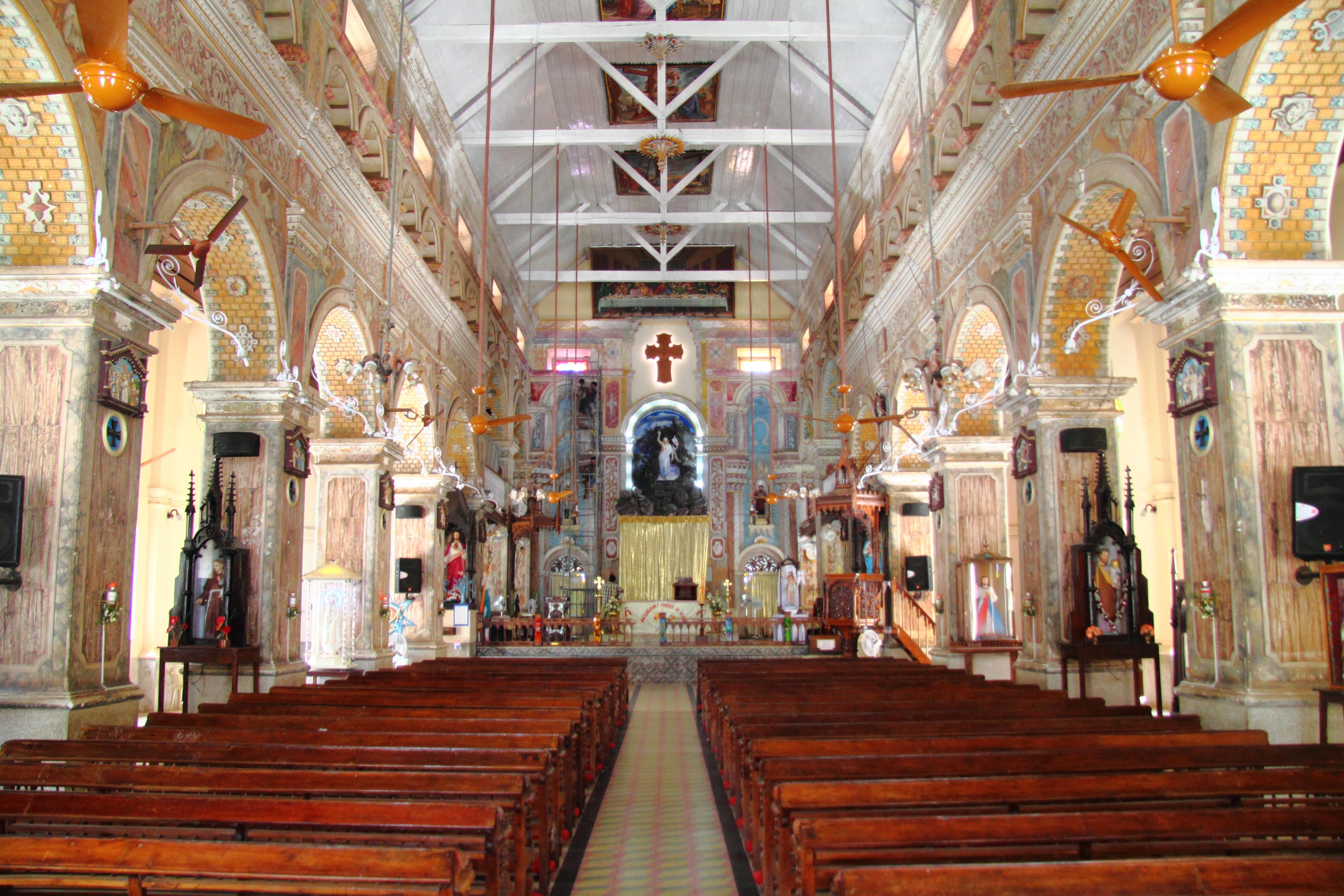 Kochi, India, Santa Cruz Cathedral Basilica, Kochi